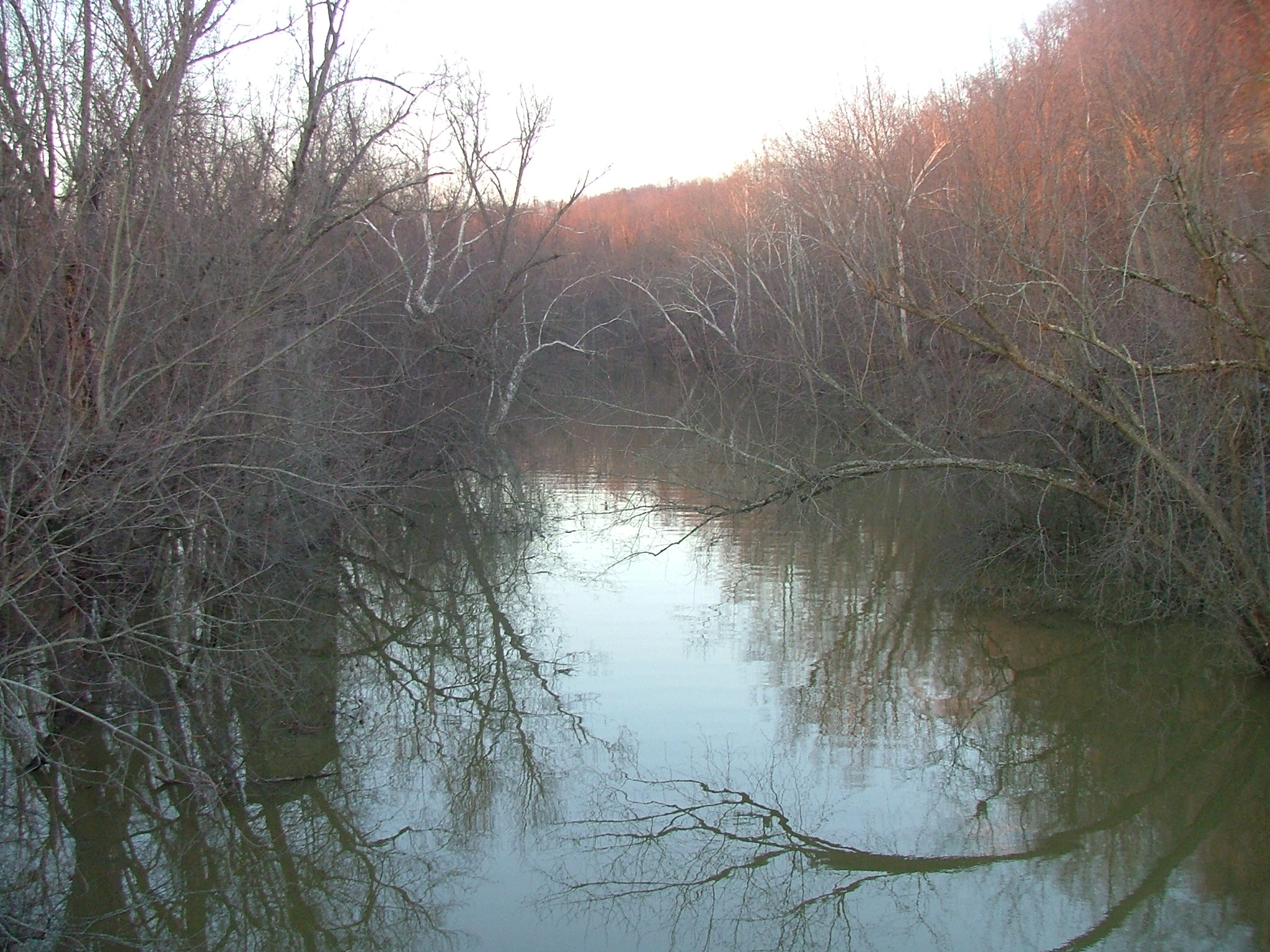 Little Scioto River at Sciotoville. The river is slightly higher than normal and is covering some of the riparian tree bases.